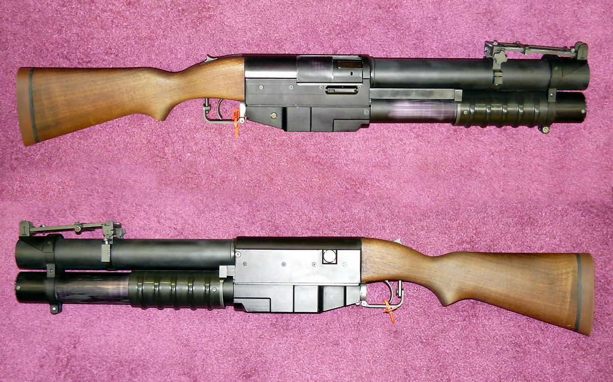 China Lake 4x40 40-mm Pump Action Grenade Launcher